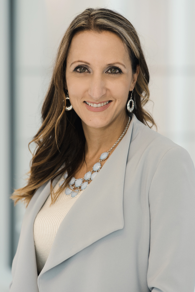 Lori Brotto (2018)